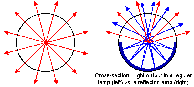 Light output simulation when comparing cross sections of a fluorescent lamp with and without a reflector.